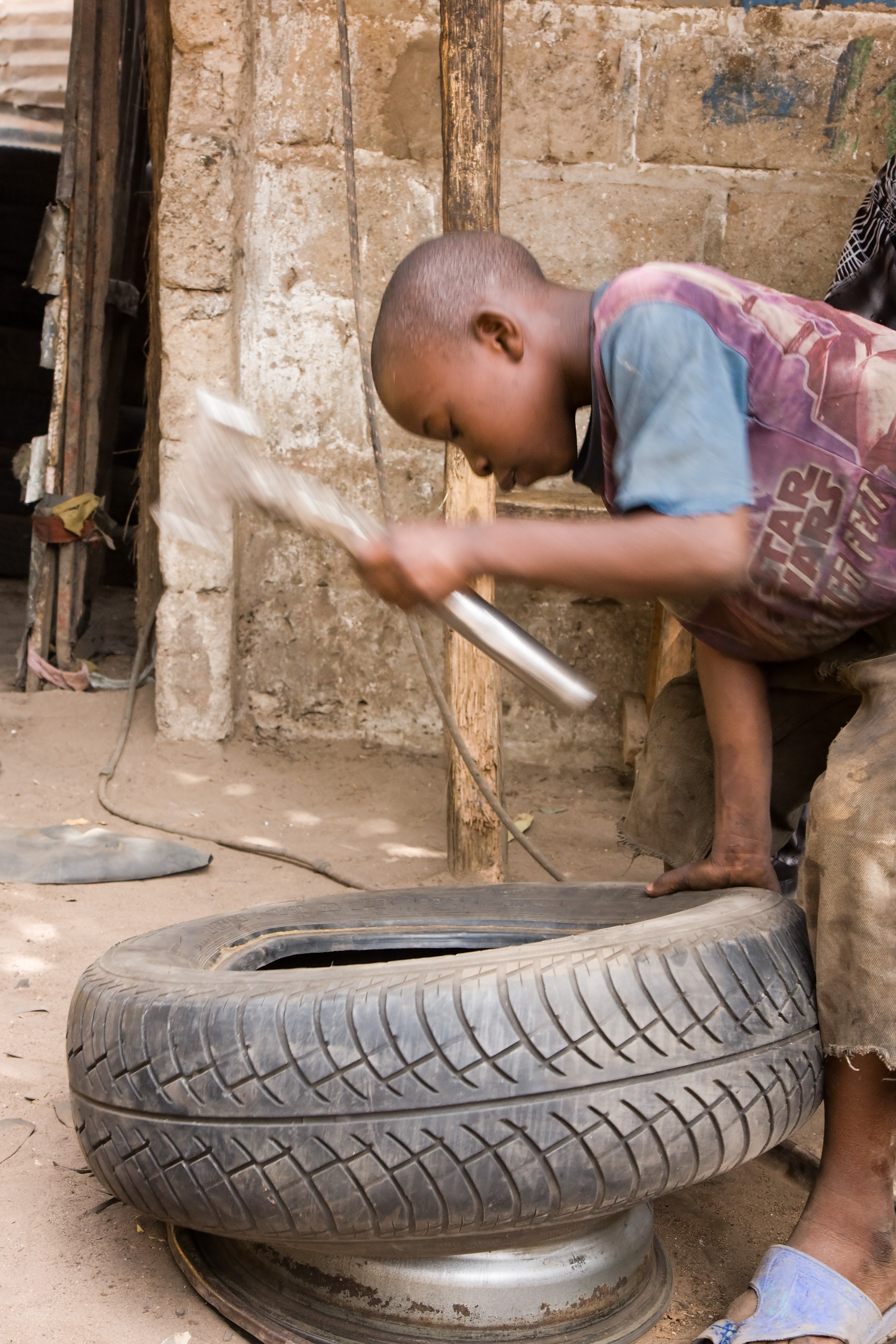 A child repairs a tyre in The Gambia